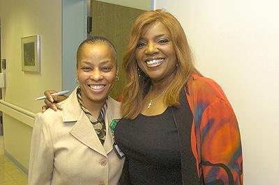 Singer Gloria Gaynor visits with staff members patients during her May 8, 2007, visit to Landstuhl Regional Medical Center, Germany. LRMC is the largest American hospital outside the United States, serving more than 245,000 U.S. military personnel and their families within the European Command. LRMC is also the evacuation and treatment center for all injured U.S. servicemembers serving in Afghanistan and Iraq. (U.S. Army Photo)